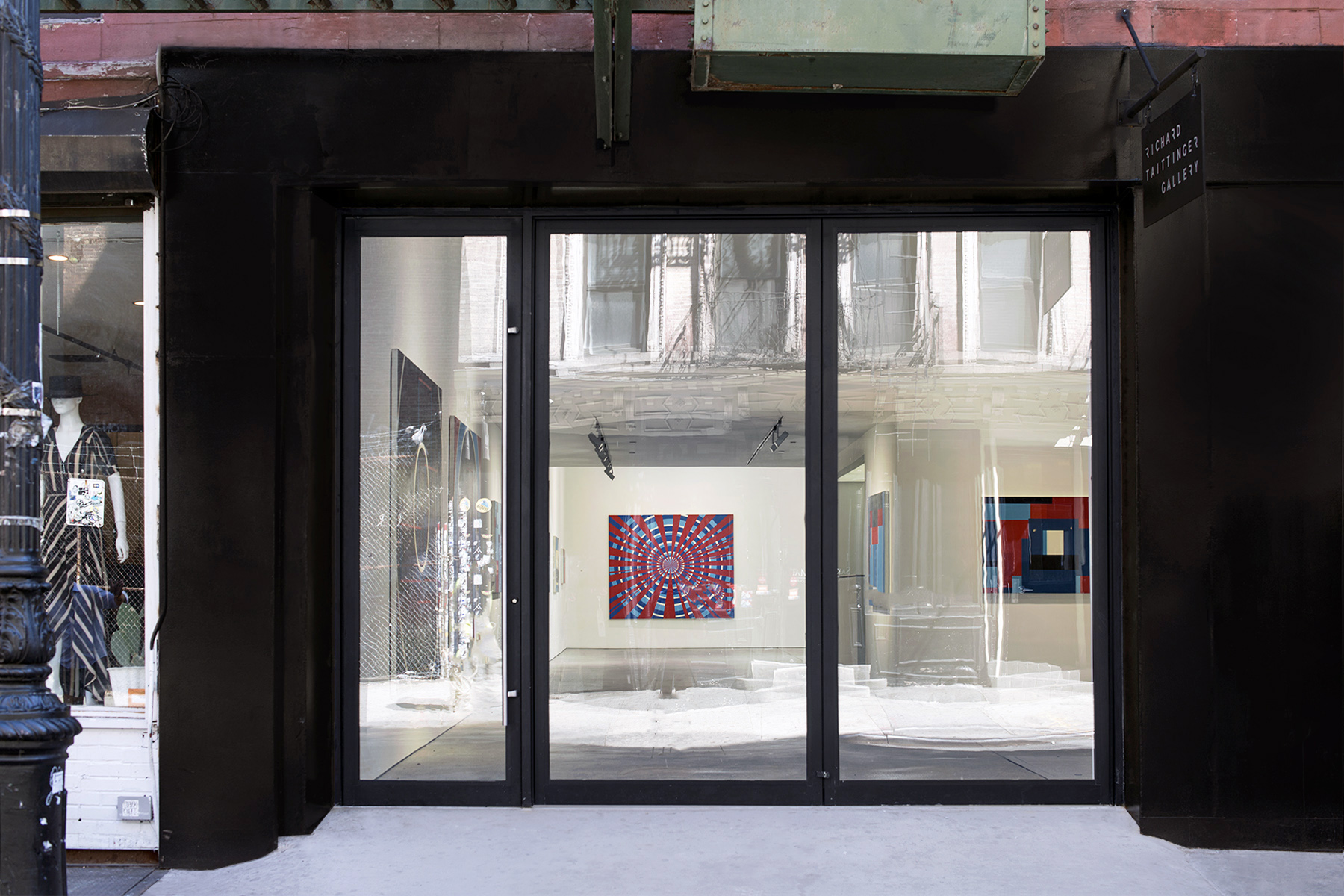 Richard Taittinger Gallery during Nassos Daphnis, "Pixel Fields", Sept 17 - Oct 24, 2015.